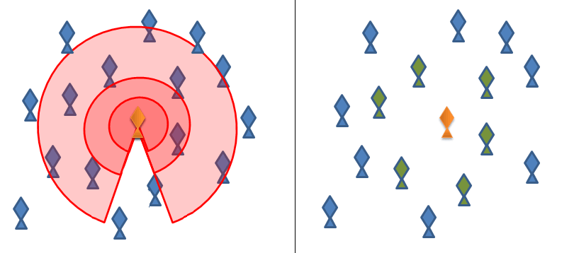 A diagram of the concept of metric distance versus topological distance as applied to schools of fish. In the Metric Distance Model (left), the focal fish (yellow) pays attention to all fish within the zone of repulsion (red), the zone of alignment (lighter red) and the larger zone of attraction (lightest red). In the Topological Distance Model (right), the focal fish only pays attention to the six or seven closest fish (green), regardless of their distance. Derived from File:Metric vs topological distance for animal aggregations.png with text removed.